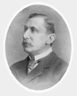 Peter Christian Massyn Veitch (1850-1929), horticulurist